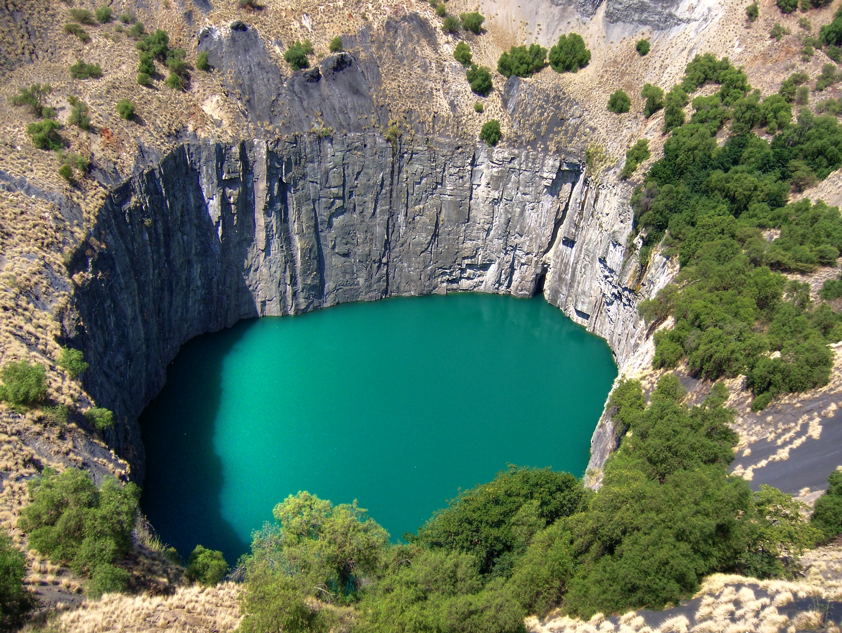 Open-pit diamond mine (known as the Big Hole or Kimberley Mine) in Kimberley, South Africa.